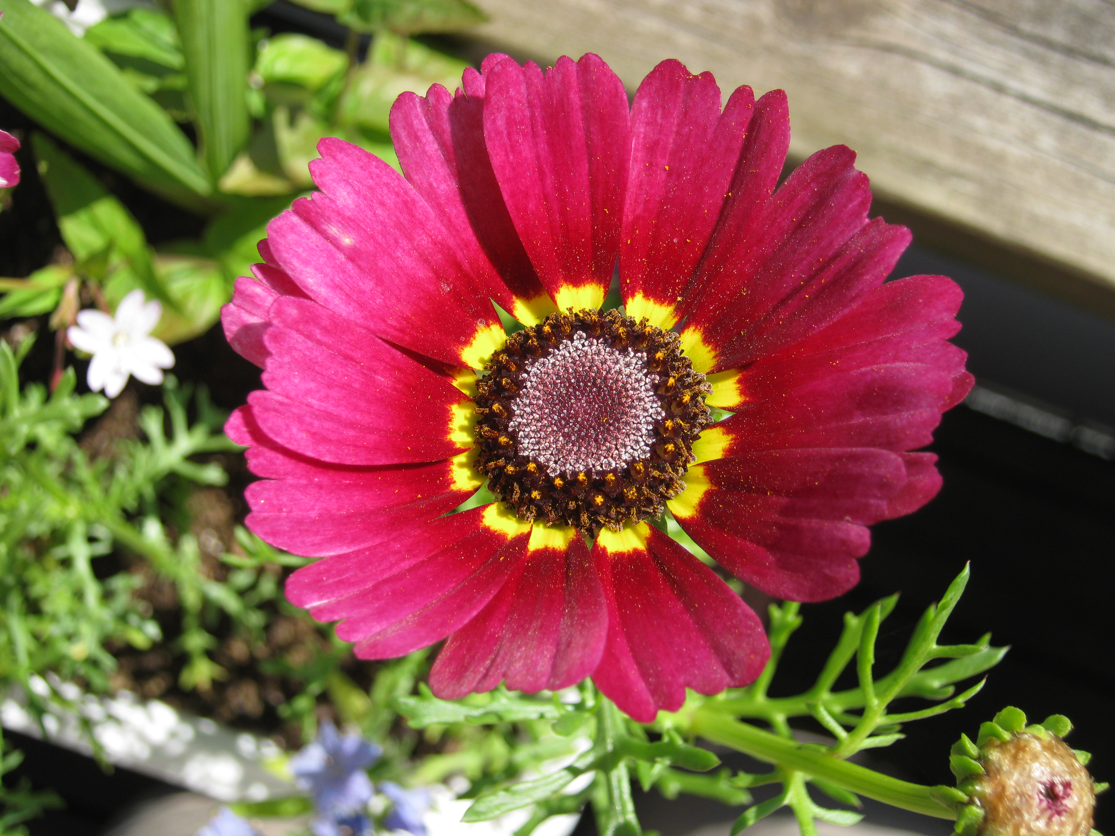 Chrysanthemum carinatum (Norwegian: Ringkrage) in bloom on veranda in Bergen, Norway